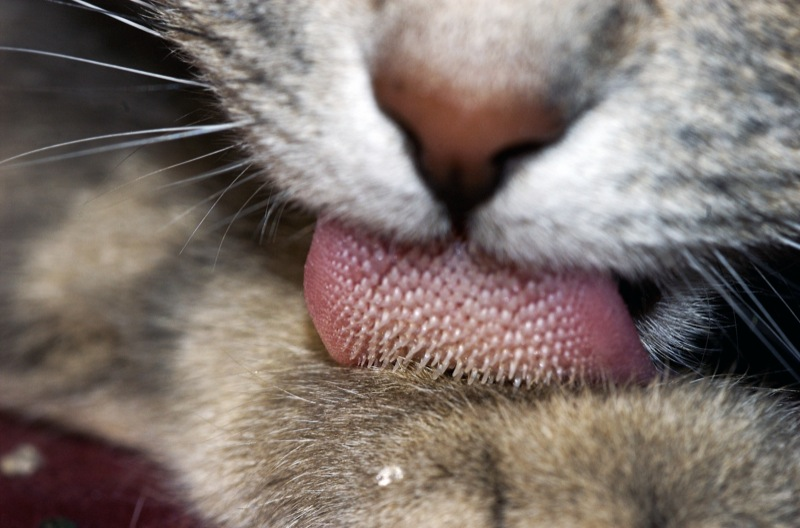 Macro photo of a cat cleaning itself, showing the hooked papilla on the tongue.